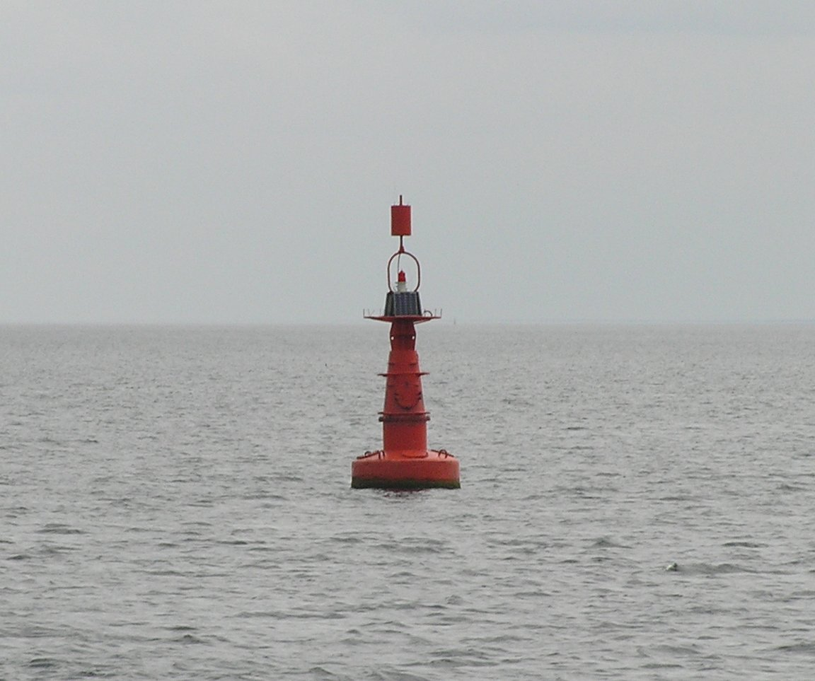 N4 port lateral sea mark